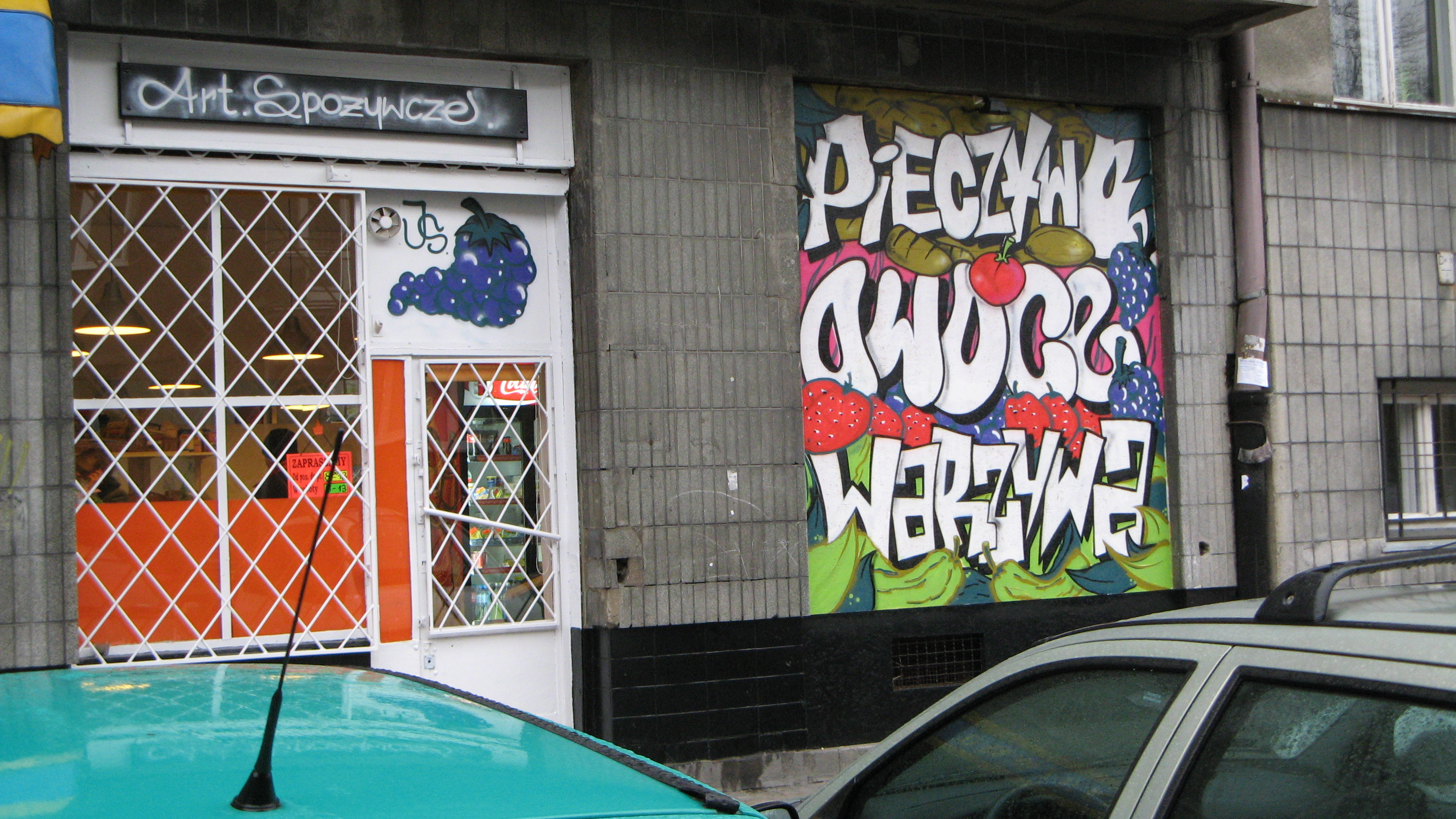 Graffiti on shop window in Warsaw (Stary Mokotów), Poland